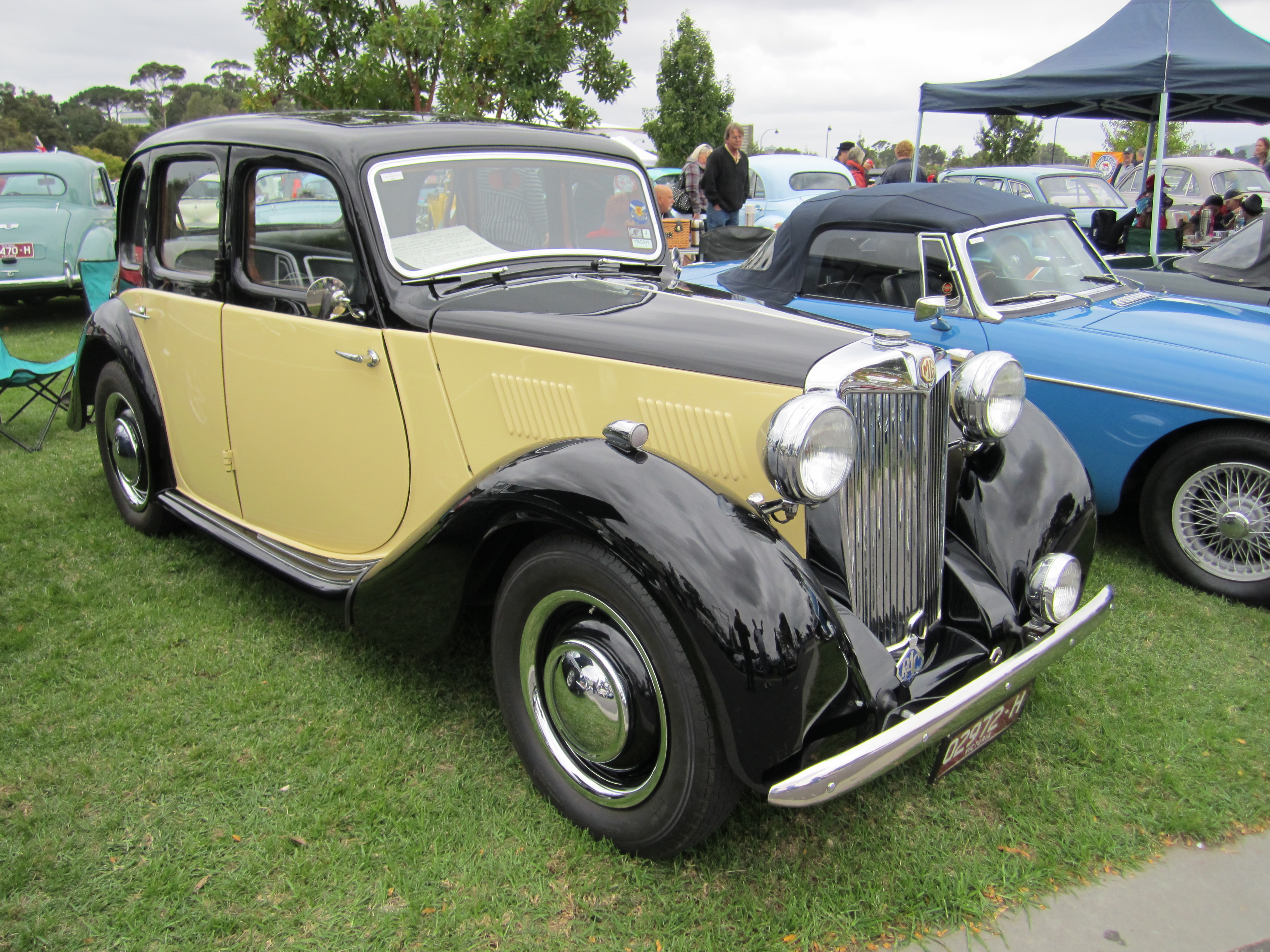 Built from1947-51 (YB 1951-53) also YT Tourer; 1948-50. Replaced by the ZA Magnette. Engine; 1250cc 4 cyl